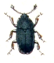 Cerylon histeroides, from Calwer's Käferbuch, Table 15, Picture 3. Taxonomy was updated to 2008, using mostly the sites Fauna Europaea and BioLib. Please contact Sarefo if the determination is wrong!